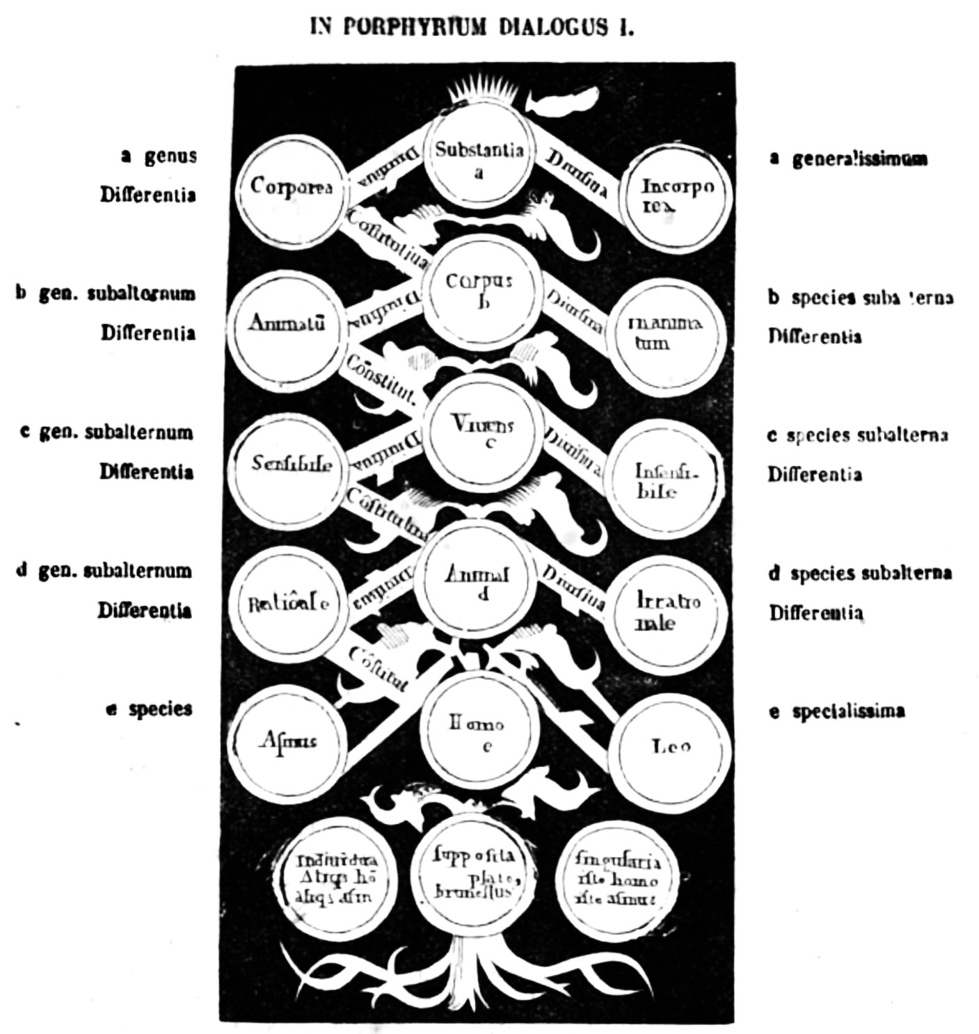 Arbor porphyrii